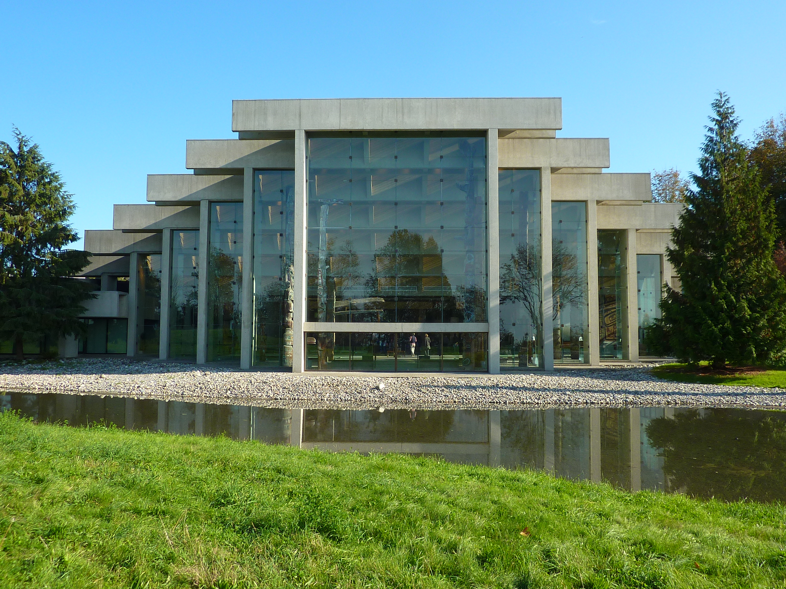 UBC Museum of Anthropology, view from the north (rear) side, showing reflecting pool after it was permanently filled in 2010.